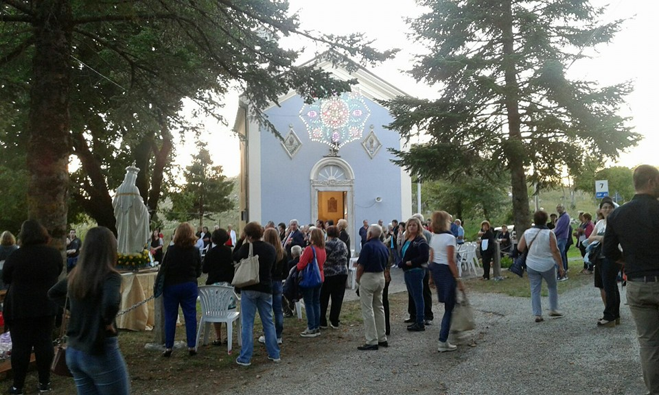 il piccolo santuario dalla Madonna del Carmine in Acquafondata, (Frosinone) Italia